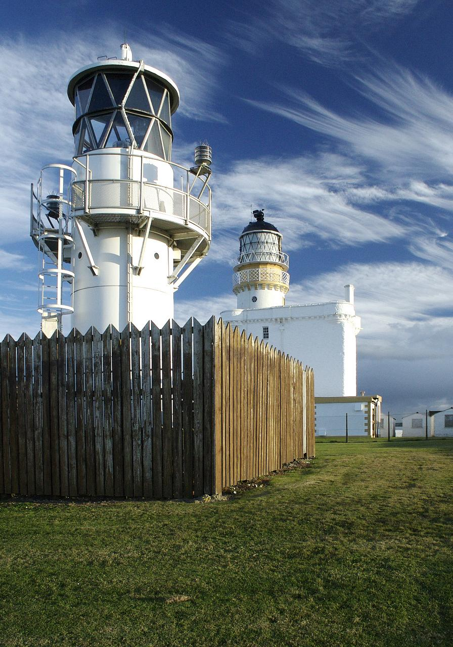 Now, suppose you are a fine, upstanding laird, you have a pretty castle by the sea, along come some Commissioners of the Northern Lighthouses who wish to build a lighthouse, what do you do? Build the lighthouse on the castle, of course! Genius! Now, aptly as the first of the Northern Lighthouses, this is the home of the Museum of Scottish Lighthouses.